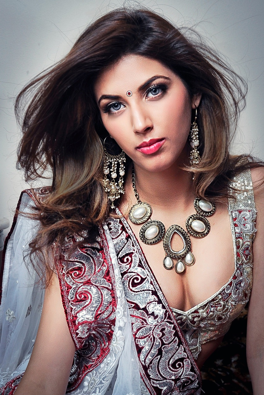 Priyanka Pripri